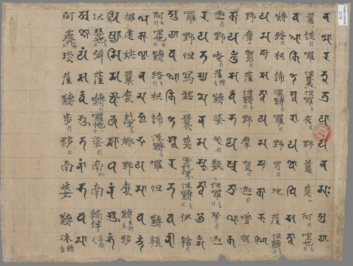 Fragment of the Nilaṇṭhanāmahṛdaya dhāraṇī both written in Siddhaṃ script and transliterated in Chinese characters.